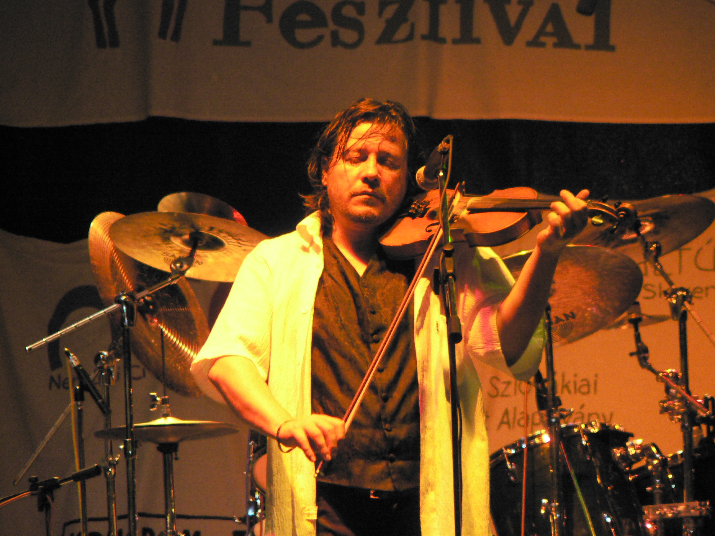 Live on the 8th of July, 2006. Ghymes band. Szikince, Felvidék. After several years, now it was possible for Párkány és Vidéke Kulturális Társaság (Párkány and Vicinity Cultural Association) to organise Ghymes Festival. The land, culture approves the message: we are home here. ©© Derzsi Elekes Andor, Budapest, 2013, You are authorised to use these photos and vids under Creative Commons – even for commercial, for profit purposes. Photos must be attributed to Derzsi Elekes Andor. All of the photos and vids in the Metapolisz DVD line are under Creative Commons and can be used even for commercial – for profit – purposes. Recommended Citation Derzsi Elekes Andor: Metapolisz DVD line A Ghymes Együttes illetve a Párkány és Vidéke Kulturális Társulás 5 éve tartó próbálkozását siker koronázta. Megrendezésre kerülhetett a SZIKINCE - GHYMES FESZTIVÁL. A rendezők felhívásukban ezt írják : „Vannak a Földnek olyan pontjai, ahol az ember a világ közepén érzi magát.” A táj, a civilizáció felerősíti az üzenetet : itt itthon vagyunk. A Szikince-Ghymes Fesztivál megrendezésével a rendezők egy ilyen itthon megteremtését tűzték ki célul: a felvidéki magyarság közösségteremtő, értékőrző összejövetelét szeretnék évről-évre megszervezni a Szikince- patak völgyében. A helyszínt – írják – nem véletlenül választották. Olyan tájat kerestek, ahol ezt a világközepe-érzést minden látogatójuk átélheti. A kép korábban Creative Commons alatt megjelent a Metapolisz 3 DVD -n (ISBN: 963-06-0413-2)